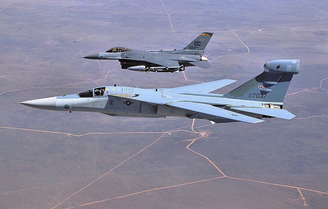 430th Electronic Combat Squadron - General Dynamics EF-111A Raven (EF-31) 67-037 with Cannon-based F-16 524th TFS